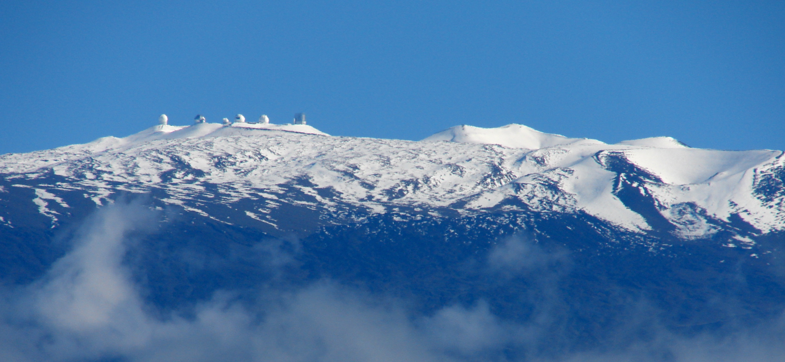 View of Mauna Kea observatory from Kohala Mountain Road (Hawaii Route 250), north of Waimea in Hawaii County.